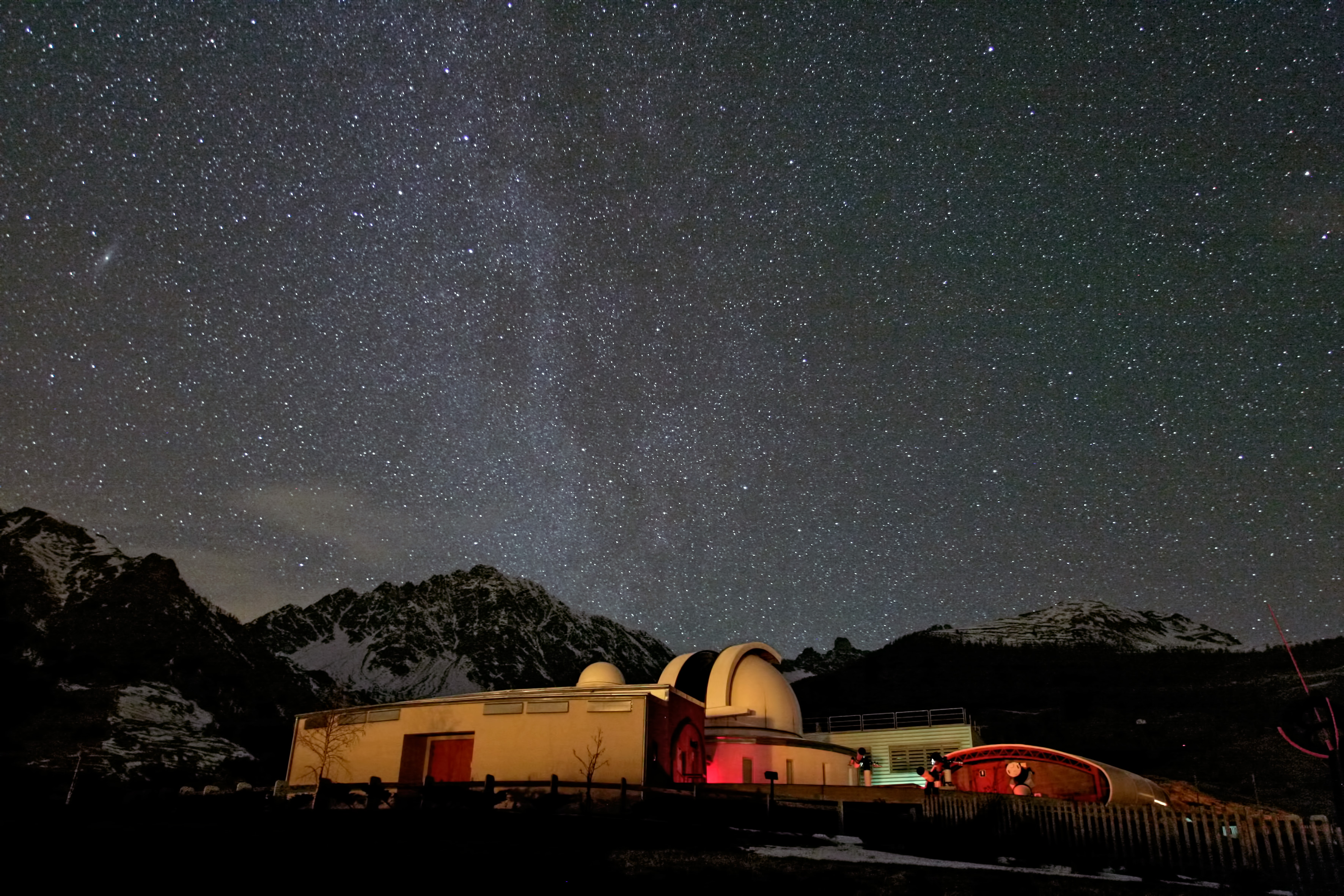 The beautiful night sky over Astronomical Observatory of the Aosta Valley, in Saint-Barthelemy, Nus, Italy, host to the first ESO Astronomy Camp. The camp will take place from 26-31 December 2013.